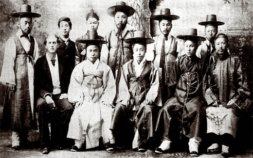 (Korean) 보빙사(報聘使)